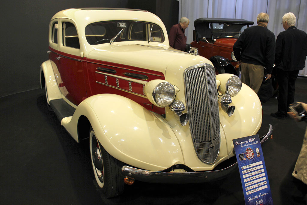 1935 Reo Flying Cloud 4.7 litre_IMG_2612